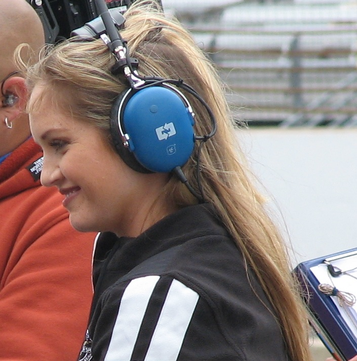 Lindy Thackston at the Indianapolis Motor Speedway for Pole day qualifications for the 2009 Indianapolis 500.